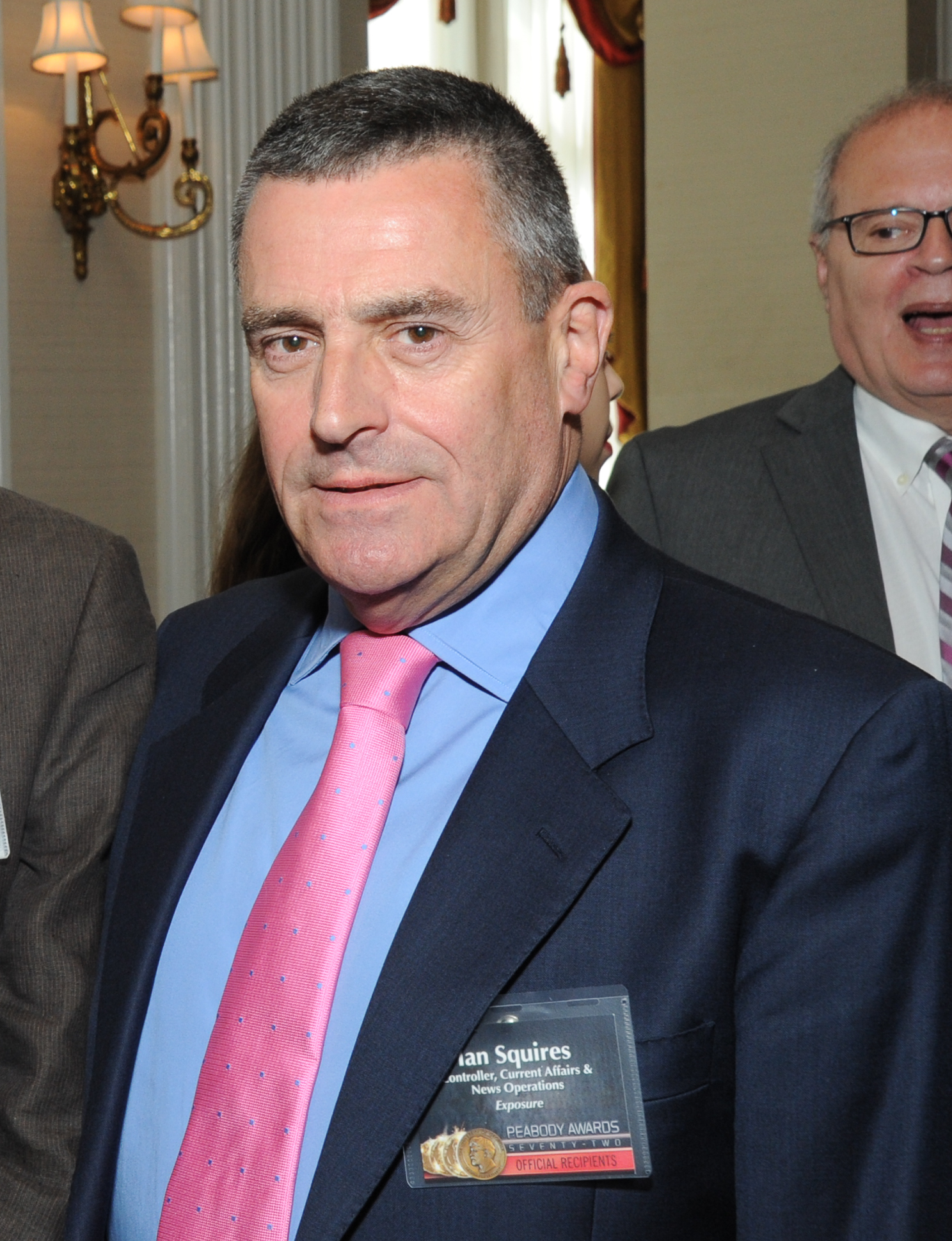 PHOTO CREDIT: ANDERS KRUSBERG / PEABODY AWARDS Alexander Gardiner, Michael Apted and Ian Squires, 72nd Annual Peabody Awards Luncheon Waldorf-Astoria Hotel May 20, 2013